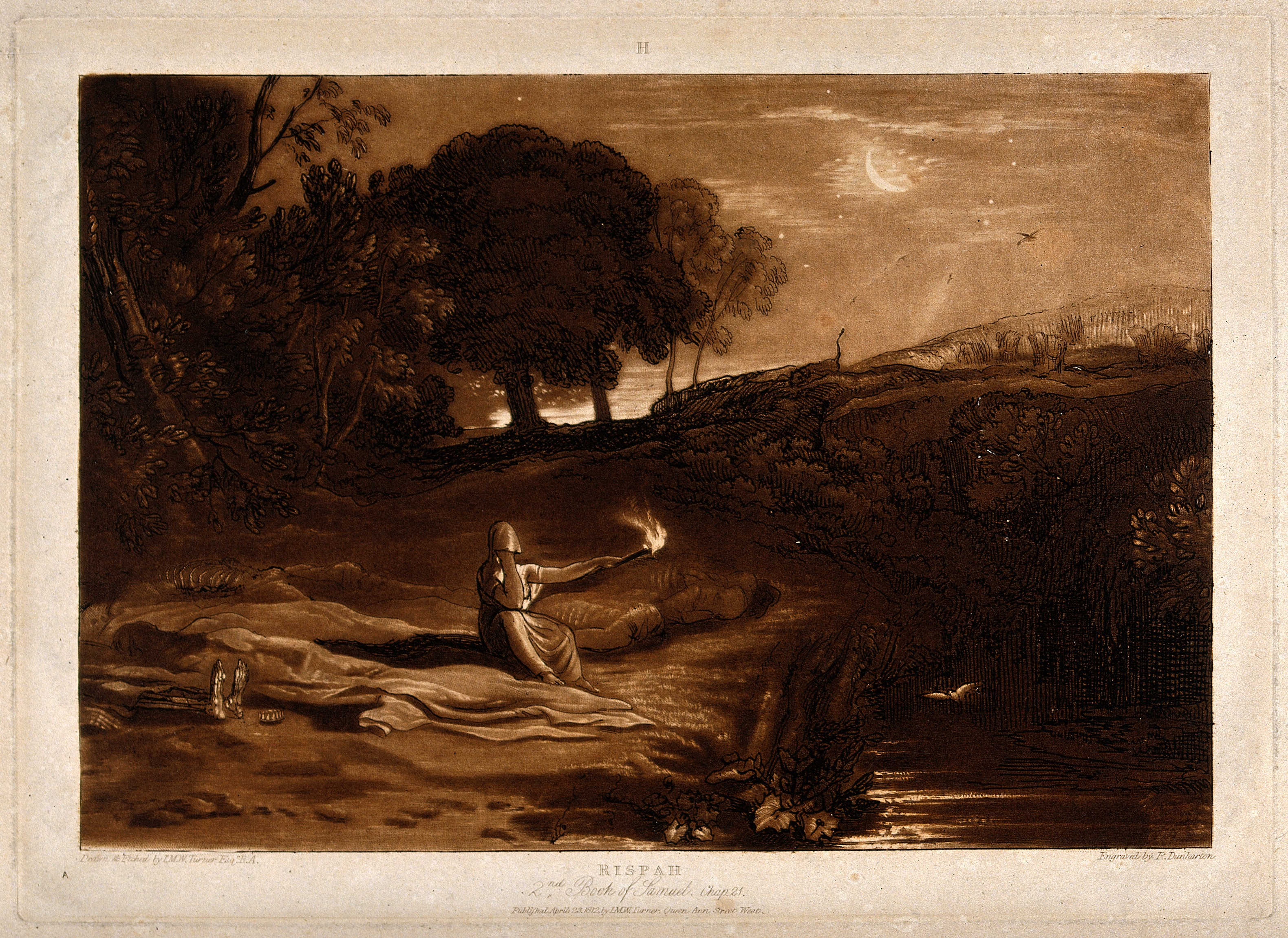 Rizpah keeps watch in the tranquil night over the decaying bodies of her sons. Mezzotint by R. Dunkarton and J.M.W. Turner, 1812, after the latter. Iconographic Collections Keywords: Robert Dunkarton; Rizpah; Joseph Mallord William Turner